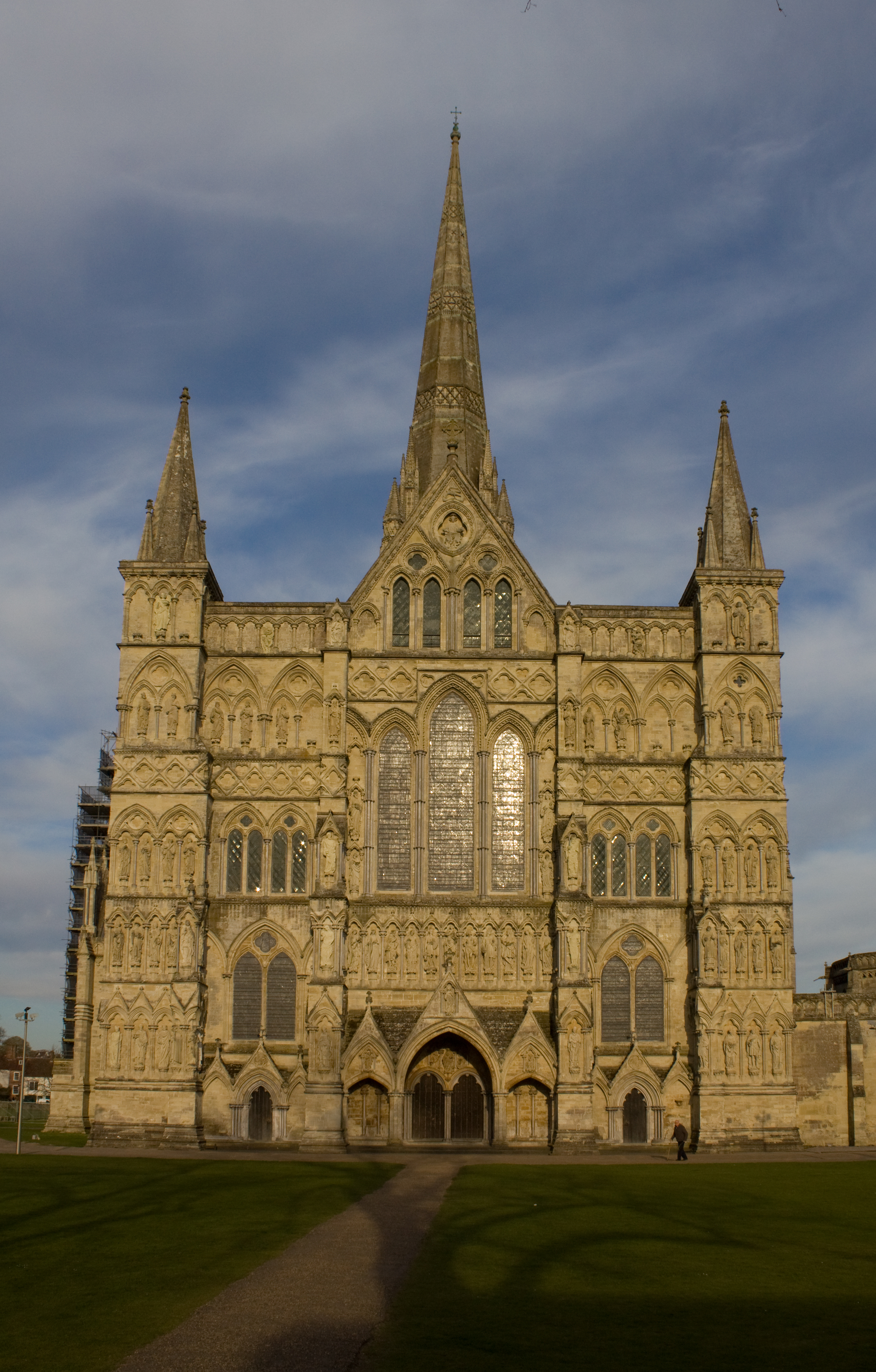 Cathedral Church of St Mary